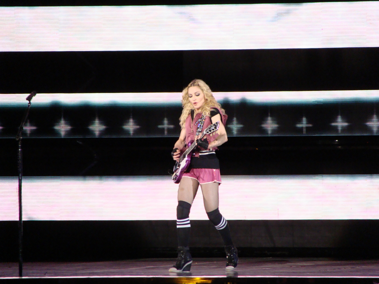 Photo of the concert